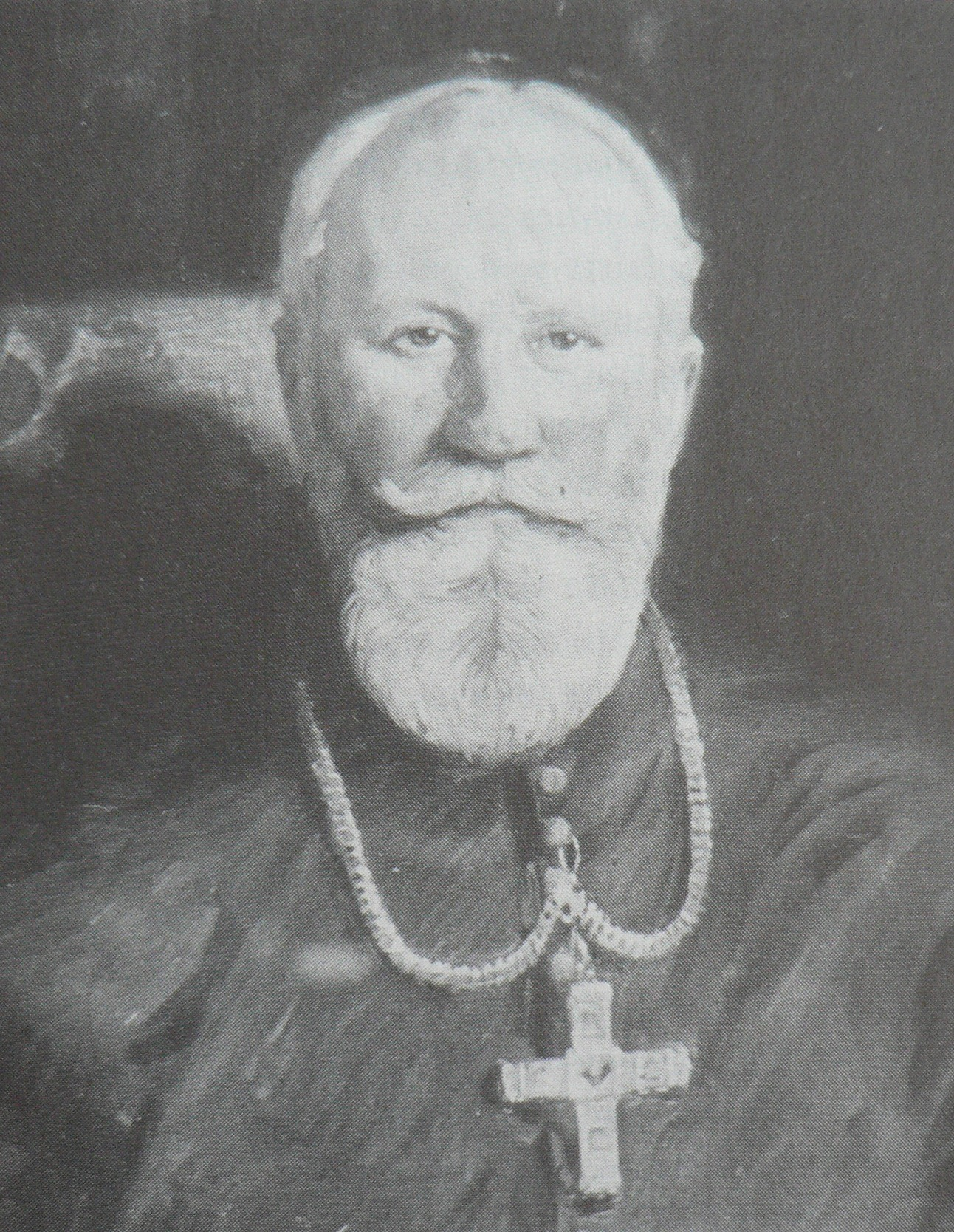 own file